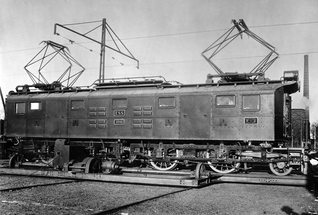 ESS 3200 electric locomotive. Photographed new on delivery.